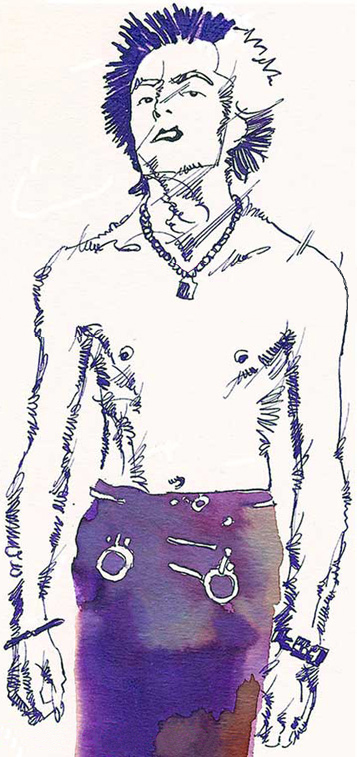 Sid Vicious, portrait by Graziano Origa, "Sid Twice", original 20x30, pen&ink+ecoline+pantoneletraset, blu+purple, 2008